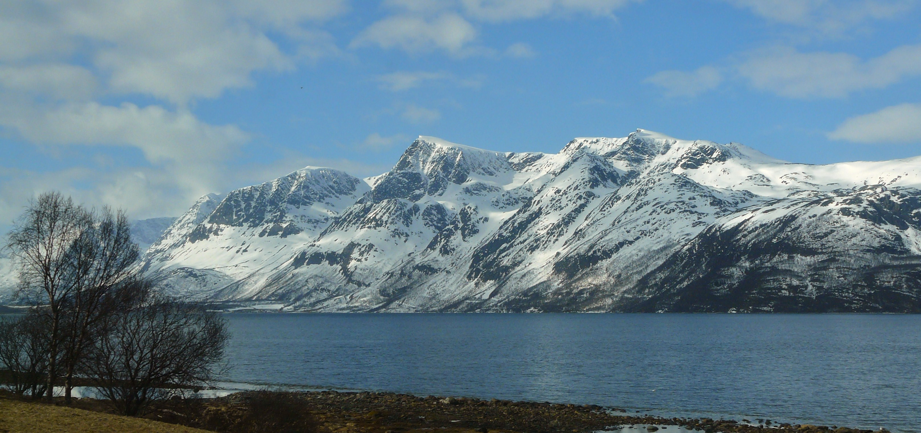 A view to Nakkefjellet and Ullsfjorden from the Riksvei 91 road by the eastern coast of Ullsfjorden in 2009 May.